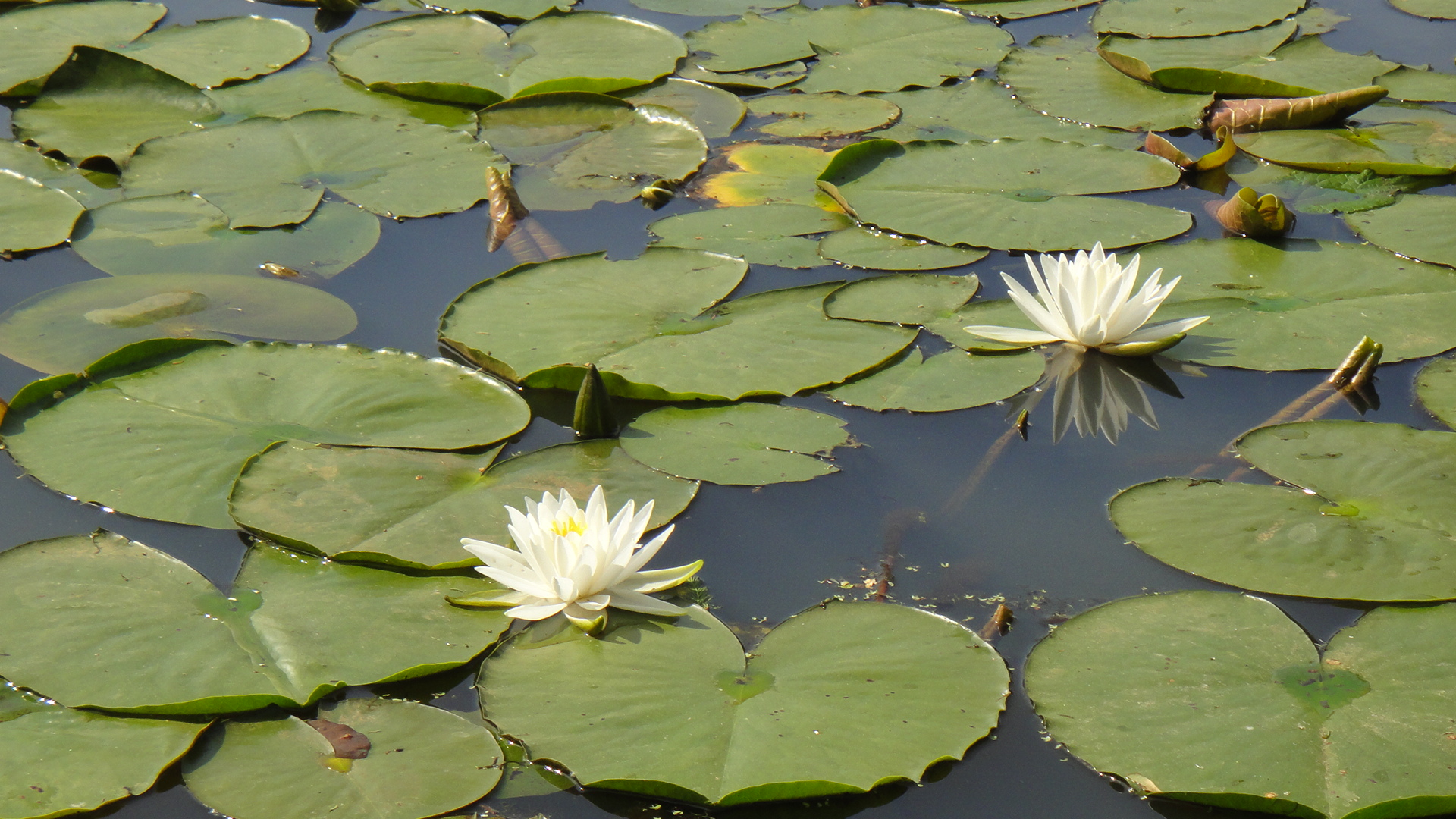 Kenilworth Aquatic Gardens a little early in the season